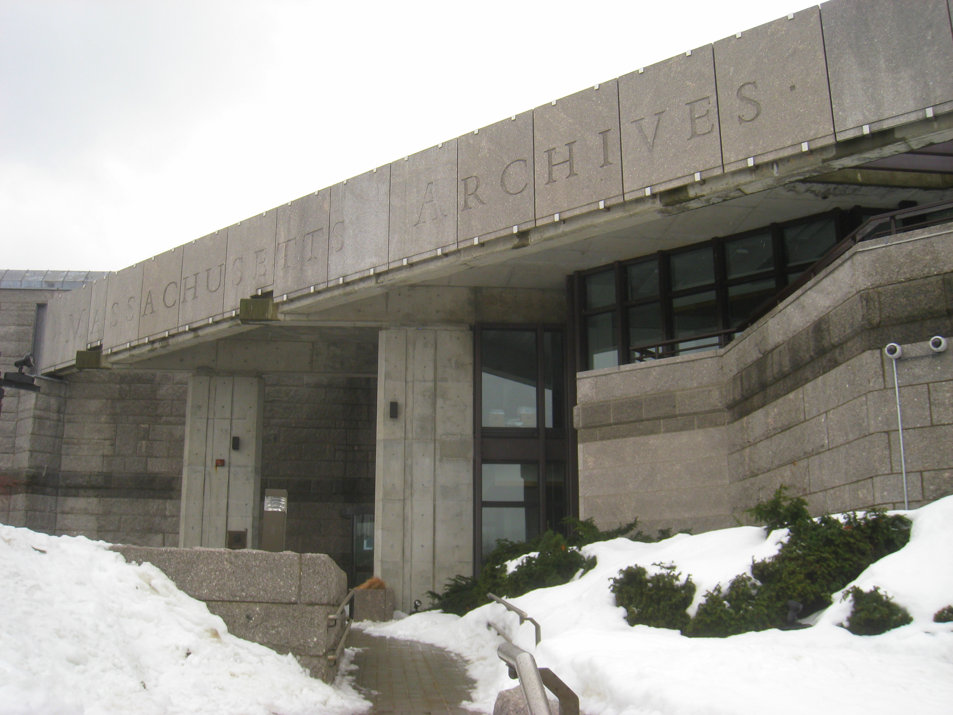 Exterior view of the Massachusetts Archives, Boston, Massachusetts, USA.